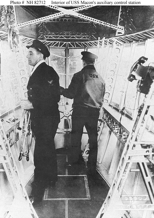 USS Macon (ZRS-5) View in the airship's auxiliary control station, located in the lower vertical fin, circa 1933-1935.- U.S. Naval Historical Center